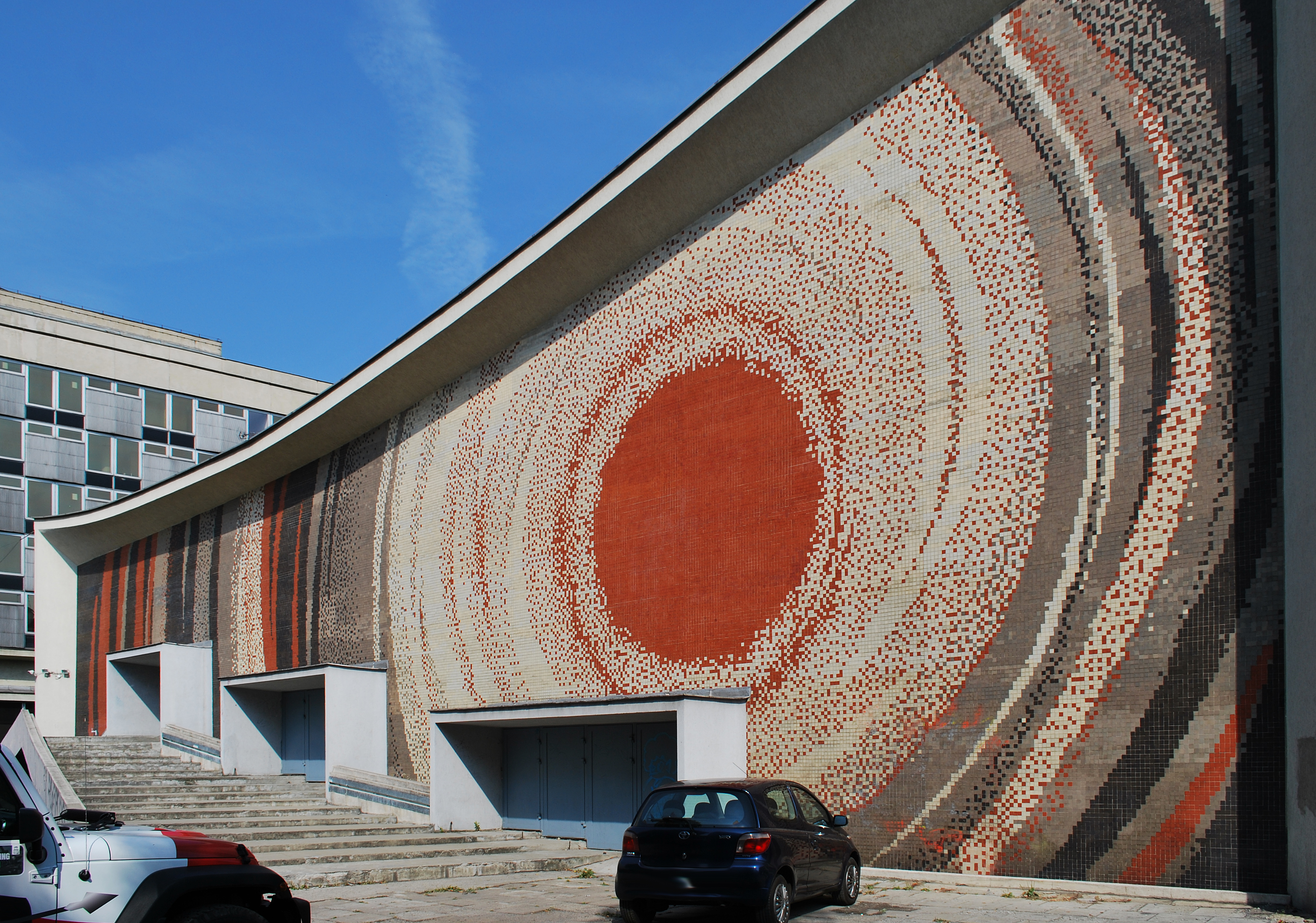 Kijow Centrum Cinema, W facade, 1965 mosaic designed by Witold Cęckiewicz, 34 Krasinskiego Av, Krakow, Poland